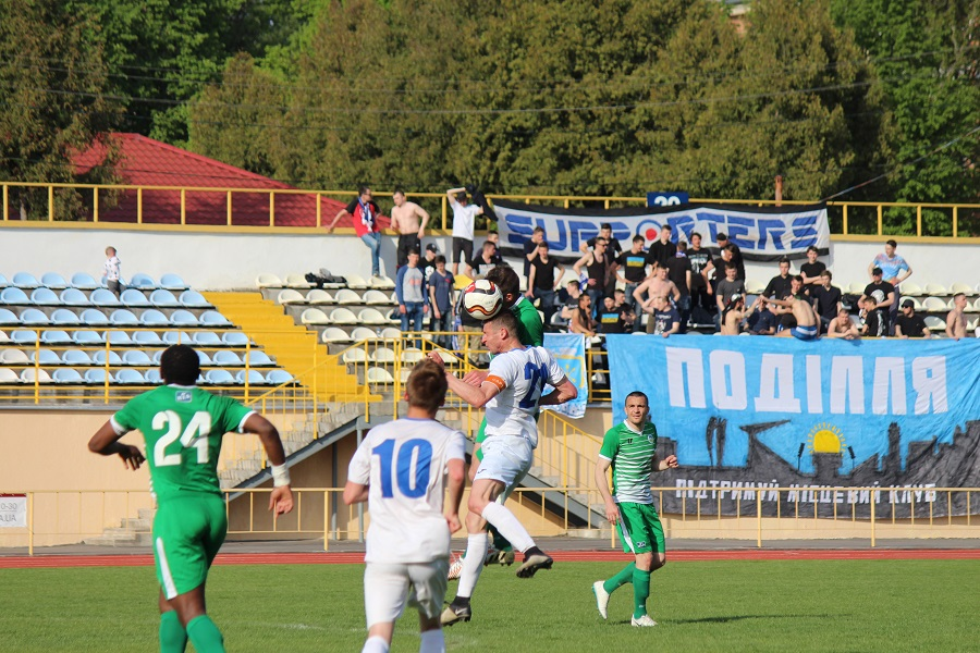 Podillya - Nyva (Vinytsia)